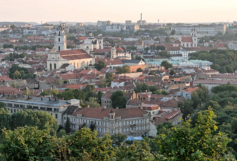 Sunset view of Vilnius Old Town from the Hill of Three Crosses.